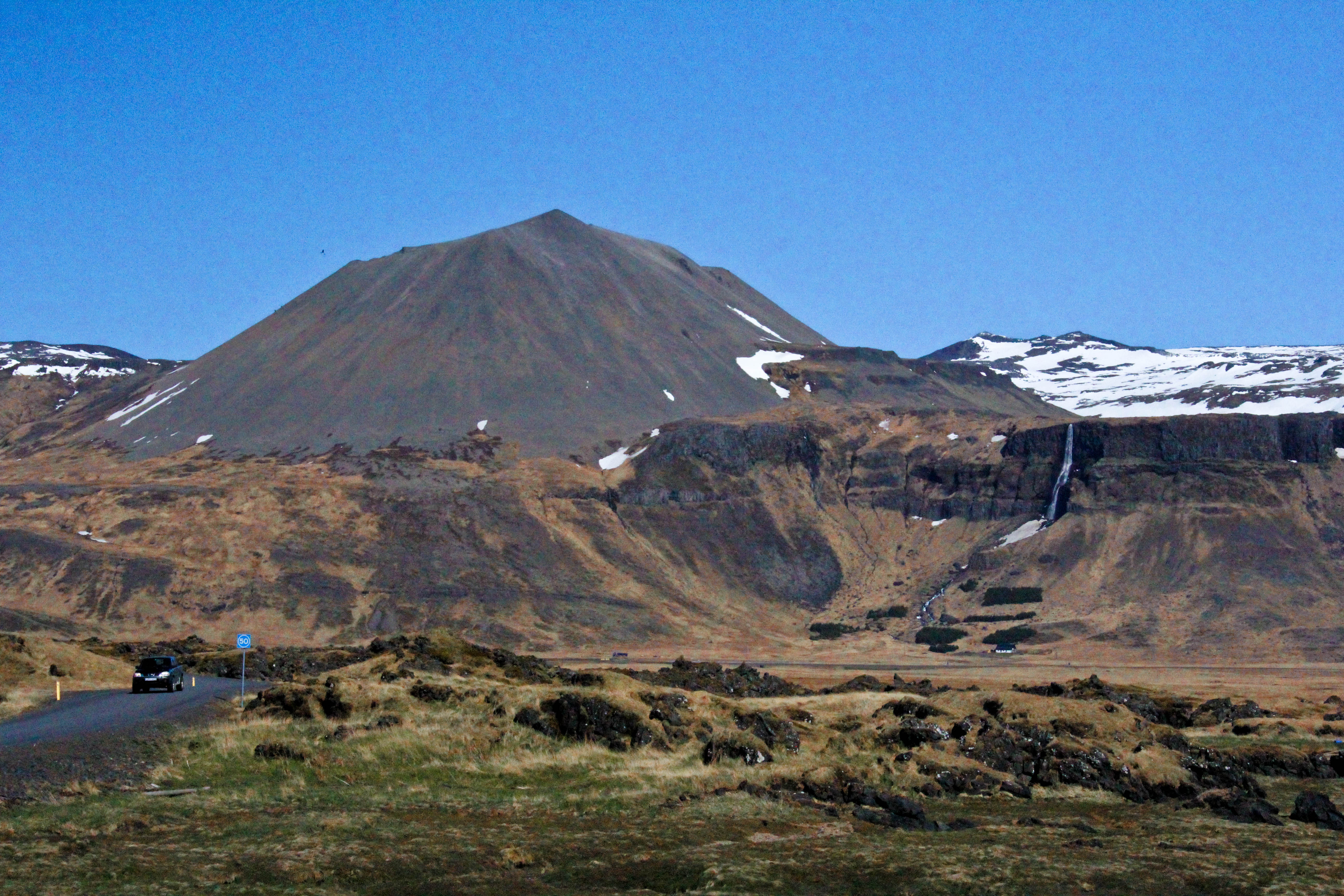 Budir, view of Maelifell volcano and Bjarnafoss waterfall